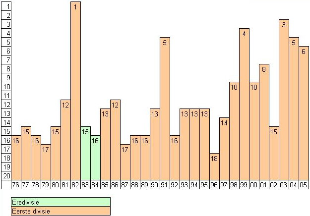 Dutch league positions of Helmond, last 30 seasons